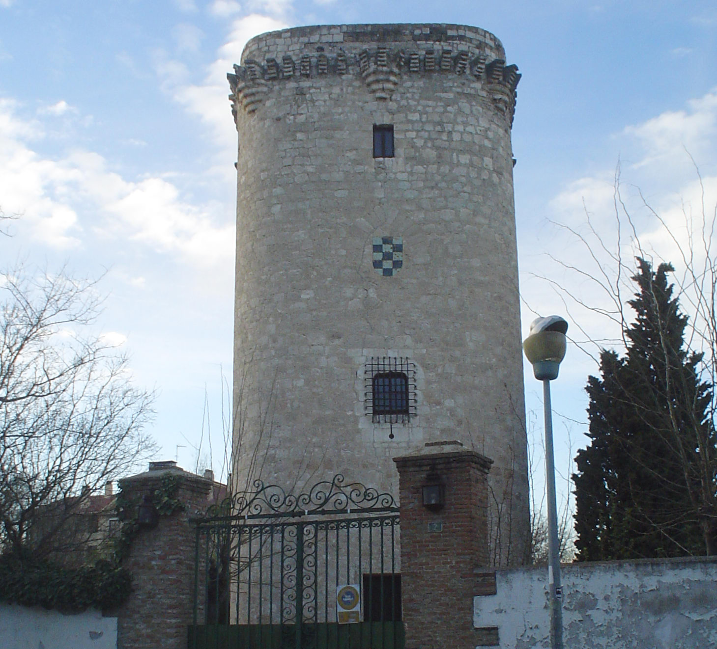 Picture taken by me of the Tower of Eboli, Pinto, Madrid.